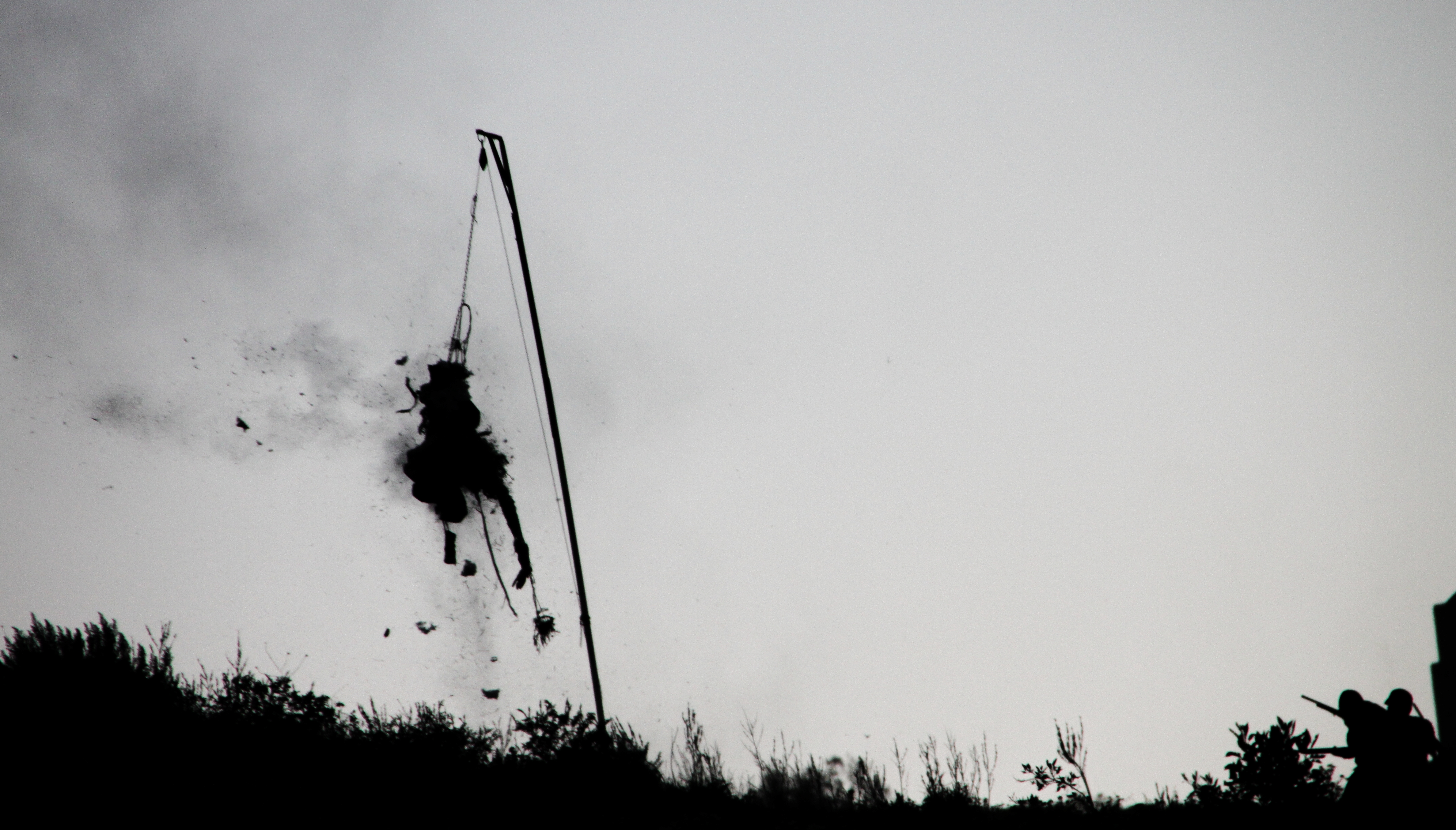 A local tradition of the village Akrotiri of Santorini is the punishment of the effigy of Judas Iscariot which comprises of three events: The procession of Judas around the village, the trial of Judas and finally his burning... The punishment of Judas